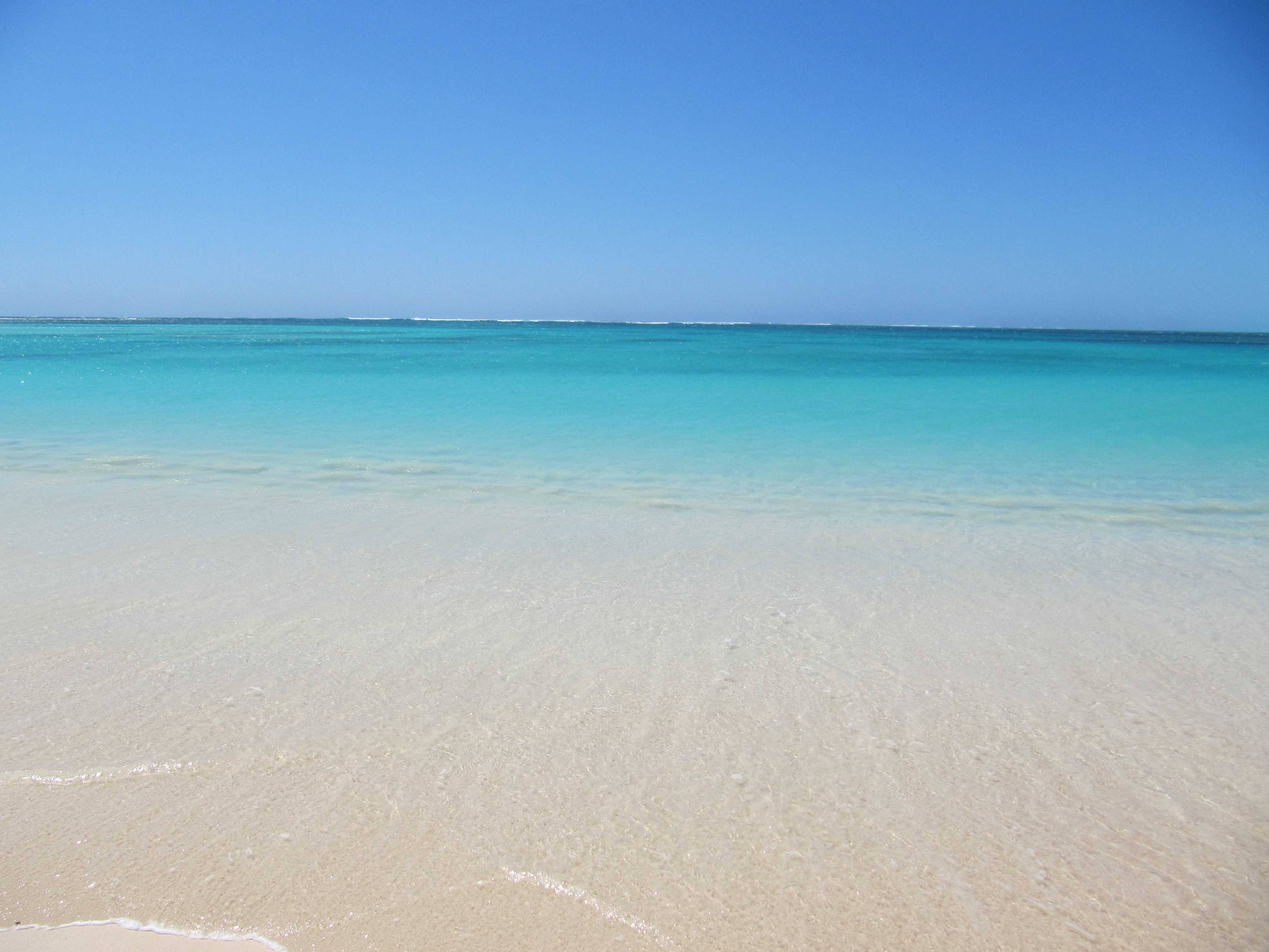 Beach in WA